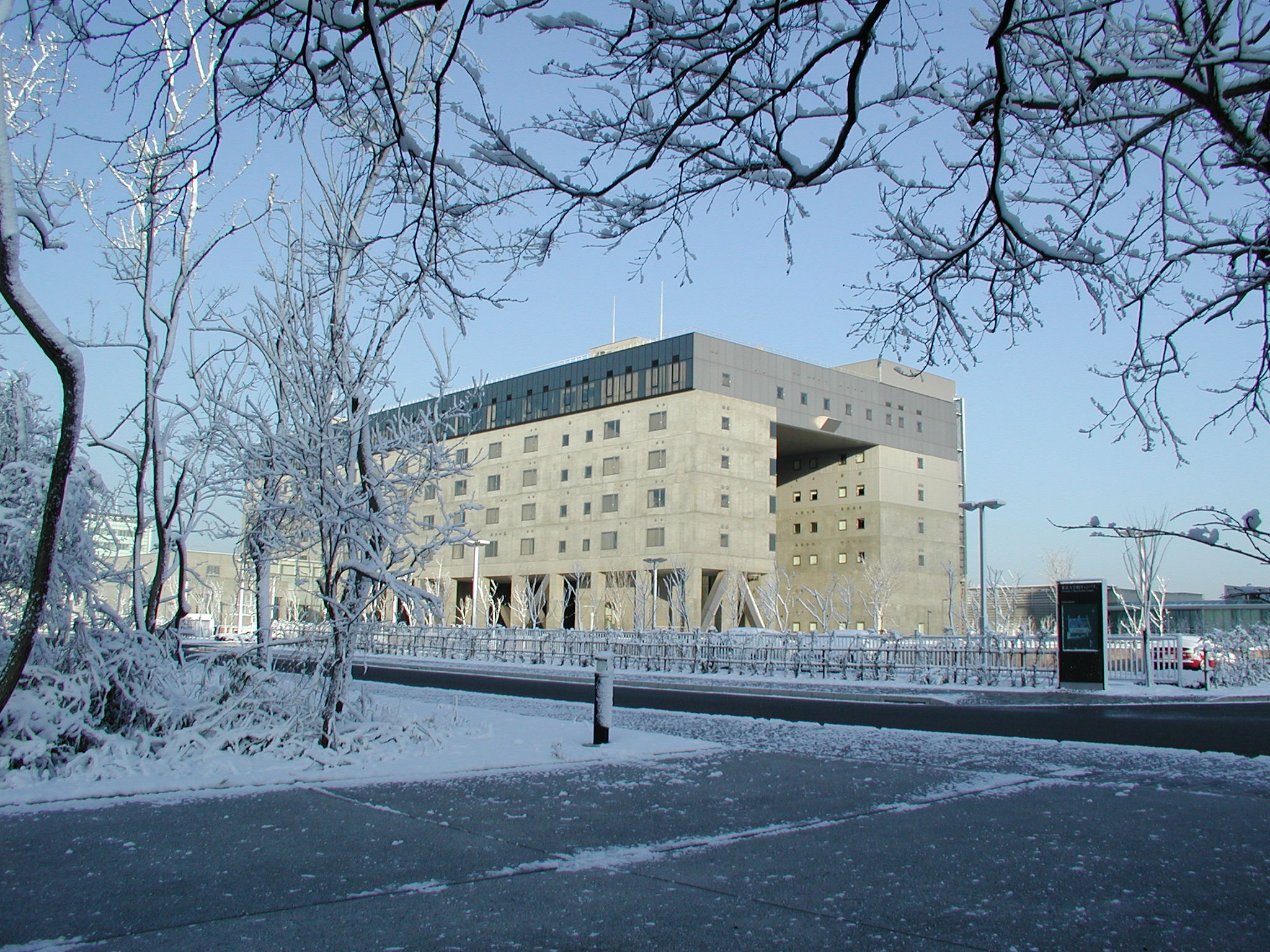 Main Building of Institute for Solid State Physics of the University of Tokyo, Kashiwa city, Chiba, Tokyo, Japan.